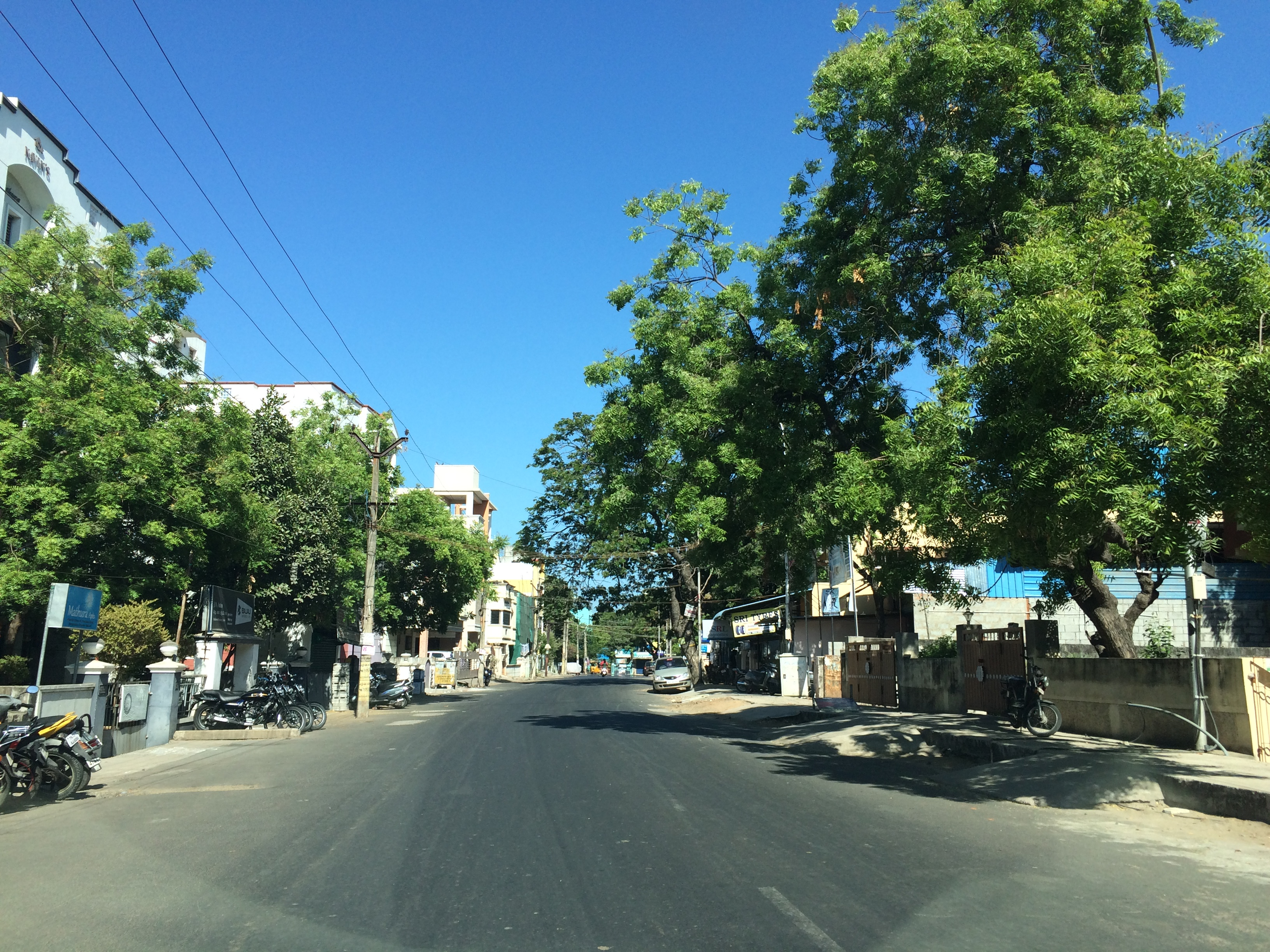 Streets in Nanganallur, Chennai